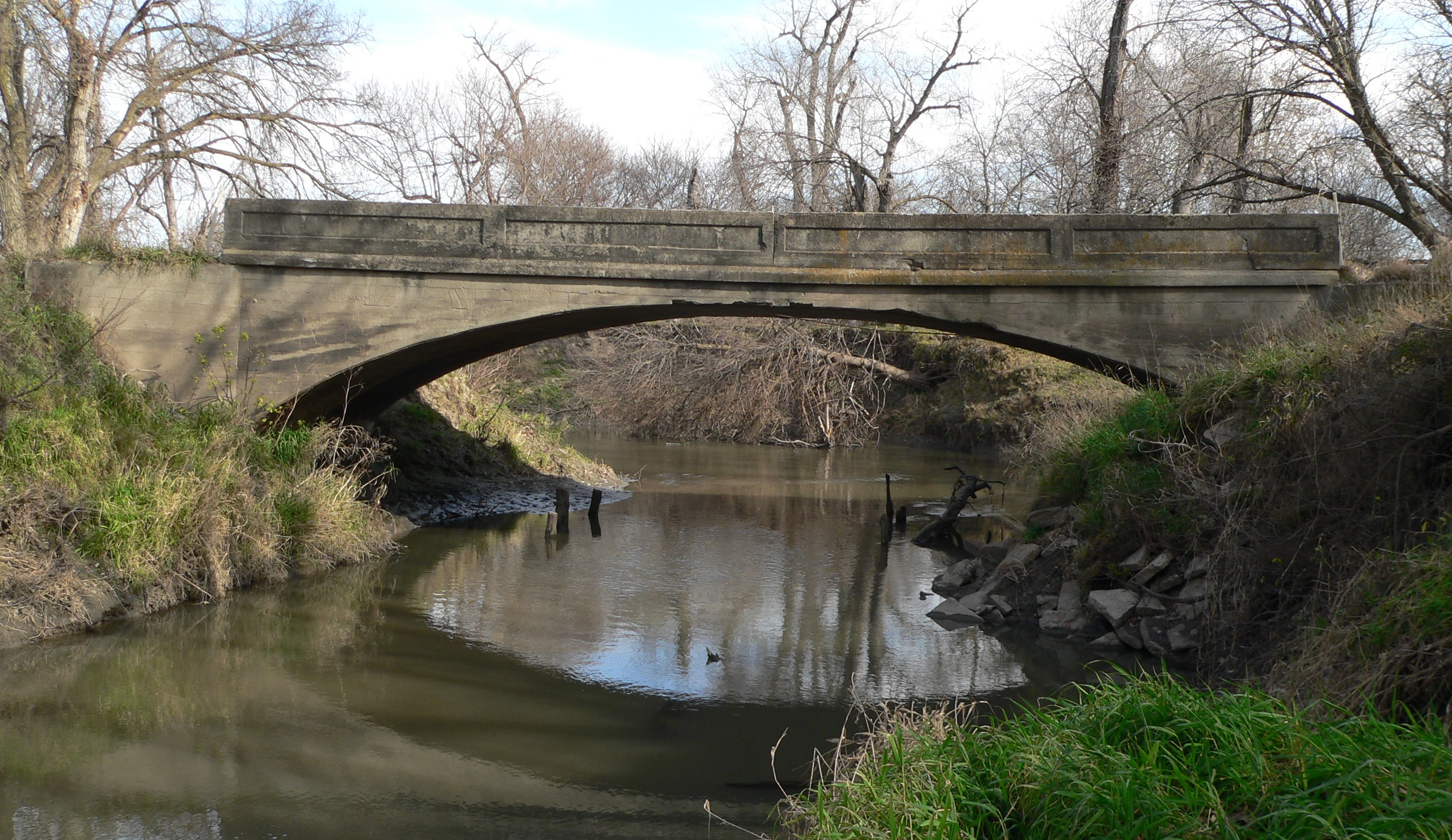 Historic bridge in Fillmore County, Nebraska, seen from the west (upstream). The bridge is located where County Road 6 crosses the West Fork of the Big Blue River. The concrete spandrel arch bridge was designed by county engineer William A. Biba and built by contractor Frank N. Craven in 1918. It is listed in the National Register of Historic Places.